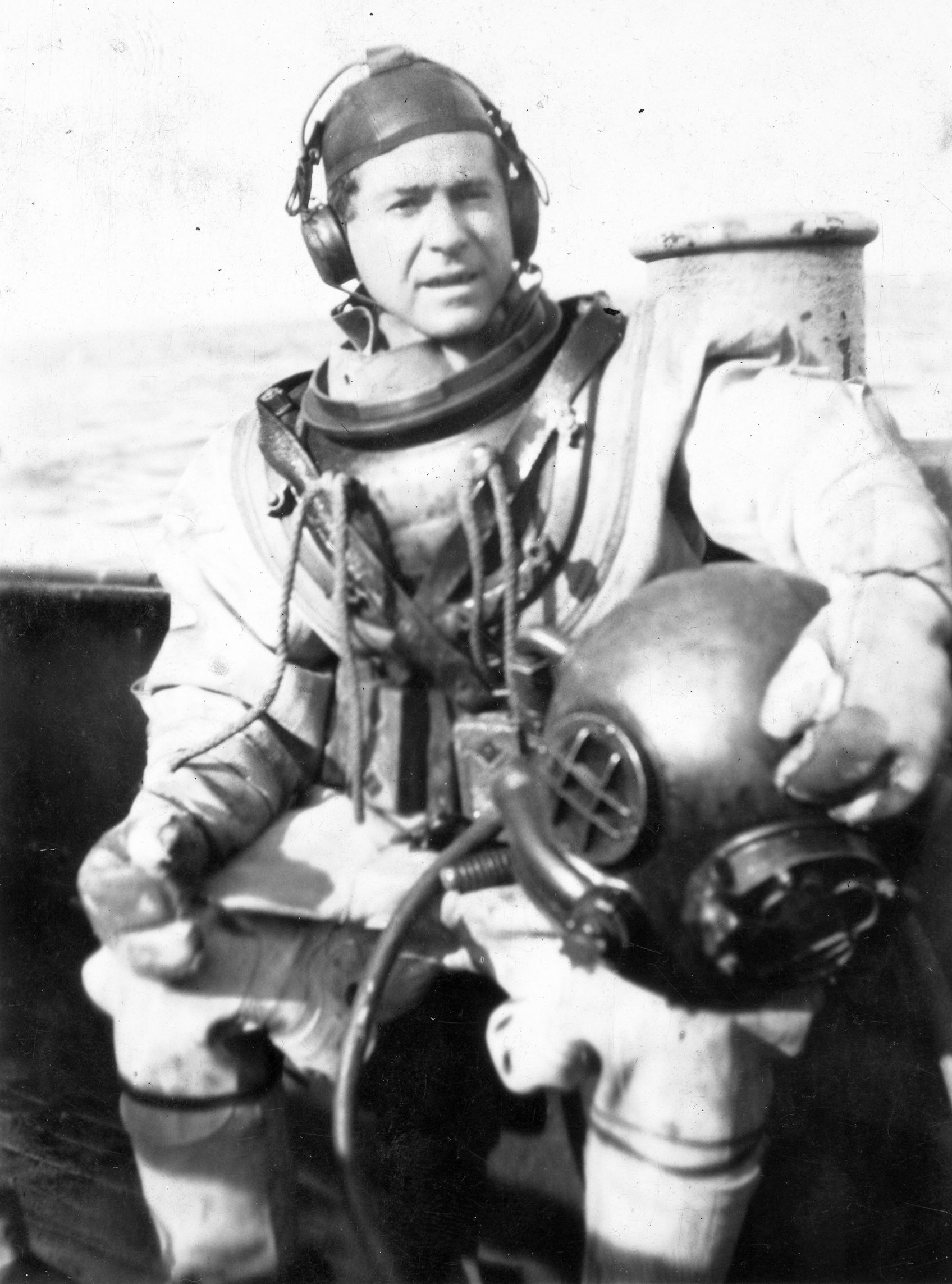 Salvage diver Frank W. Crilley, who worked on the S-4 in 1928. He was awarded the Navy Cross for his actions during the operation.